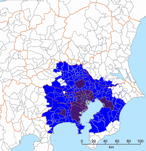 Map of the Tokyo Urban Employment Area, one of the various definitions of Tokyo/Kanto as of 2015. The definition is from English Wikipedia.